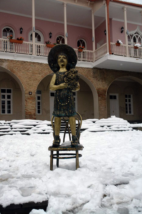 Monument in Sighnaghi